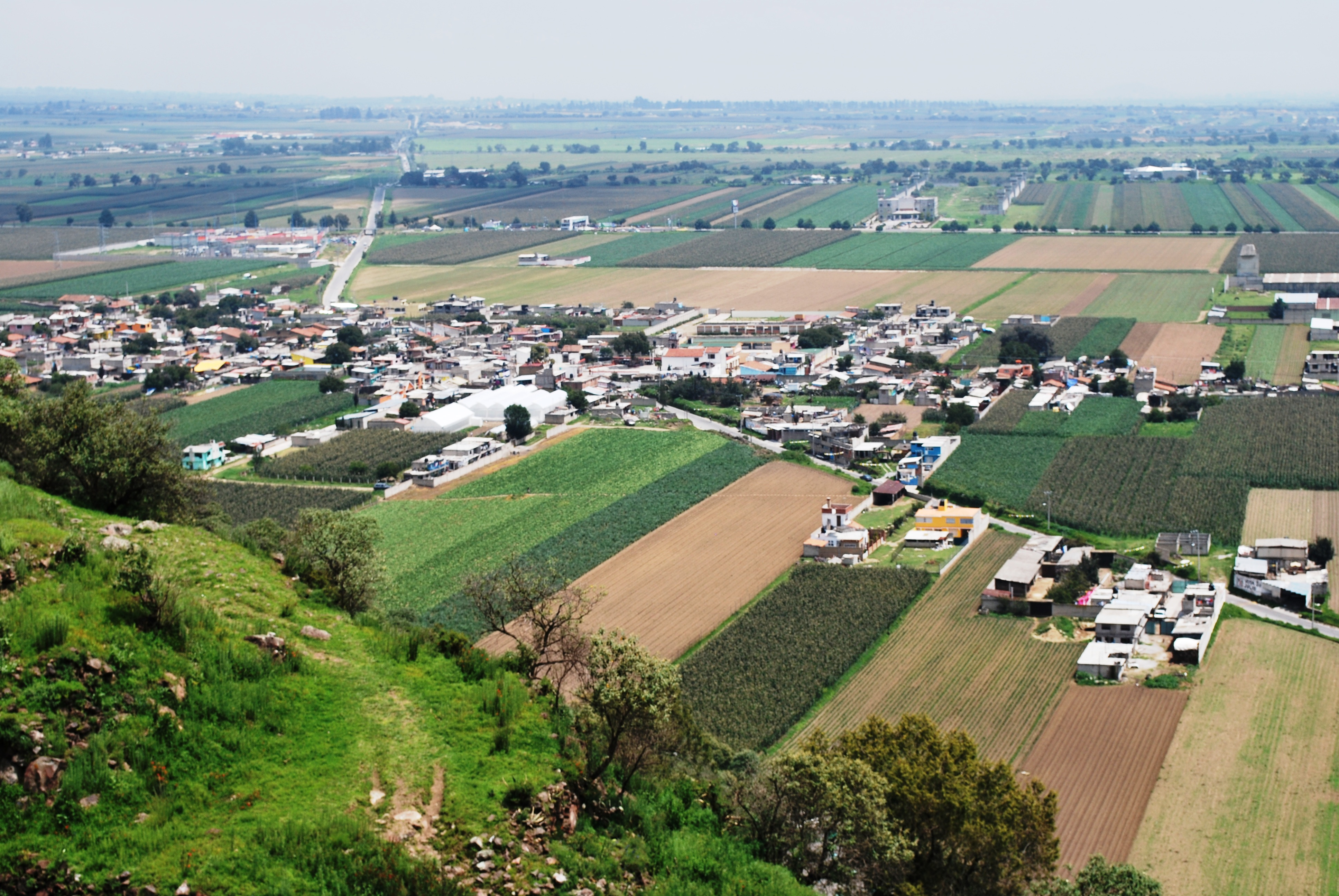 Overview of San Francisco Tetetla as seen from Teotenango, Tenango del Valle, Mexico State